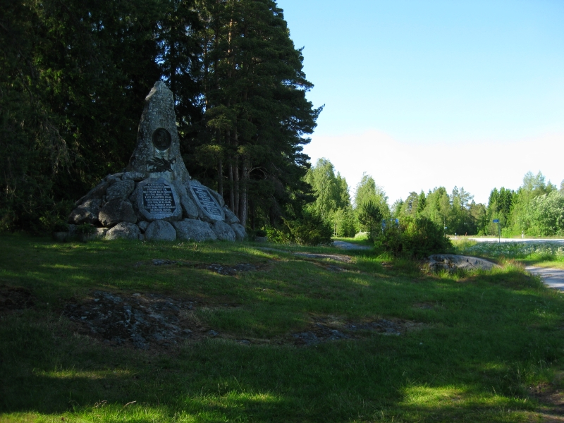 The memorial monument at the battlefield of Jutas, Finland.